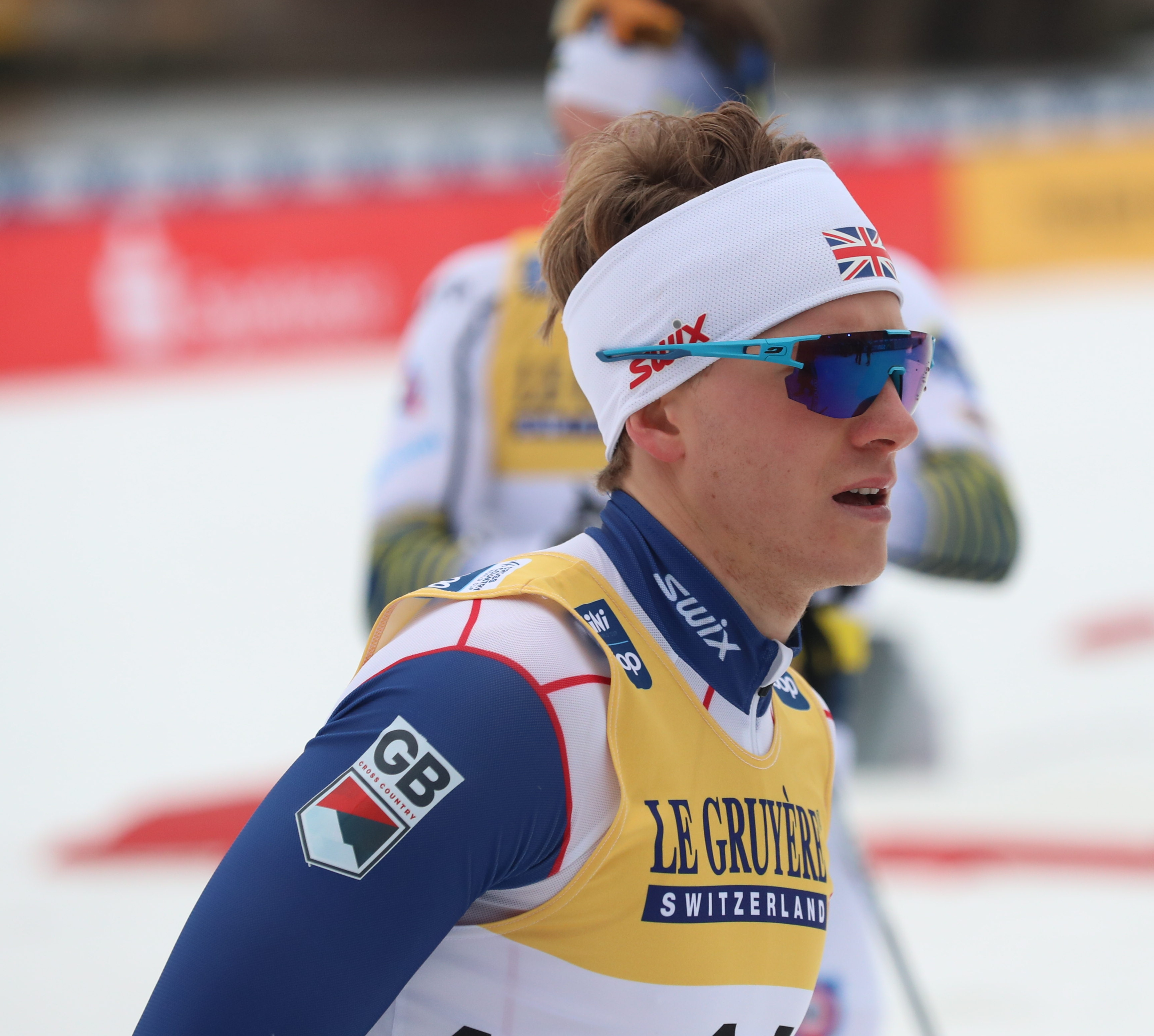 Men's Quarterfinal, Heat 5, at the FIS Cross-Country World Cup Dresden 2019 (1.6 km Free Sprint)